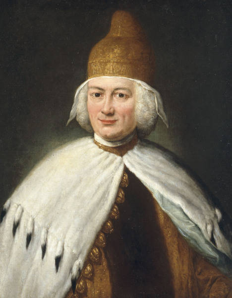 Doge of Venice Paolo Renier (1710-1789)